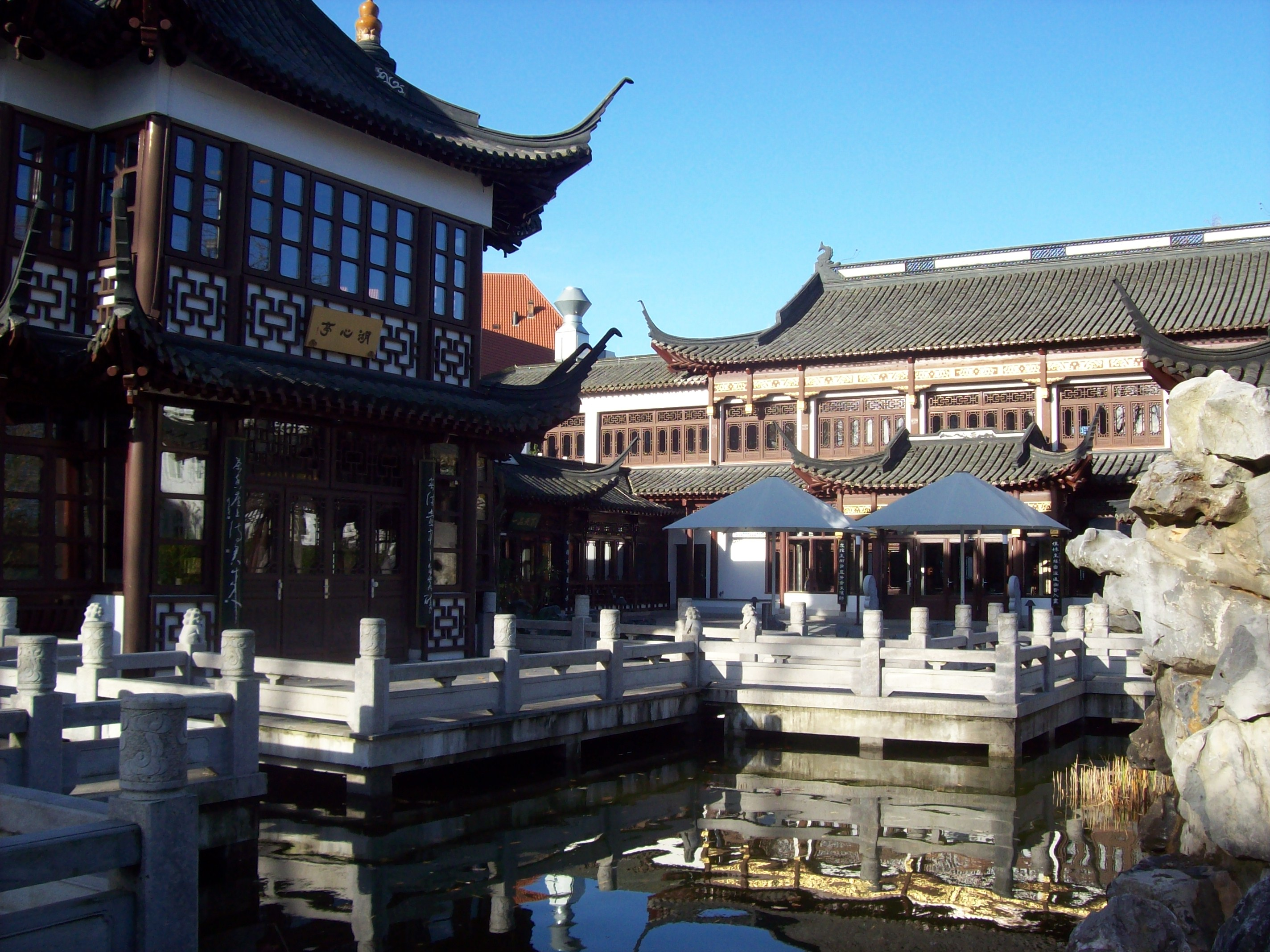 Ensemble Shanghai Yu-Garden in Hamburg, Germany, Feldbrunnenstraße, Rotherbaum.